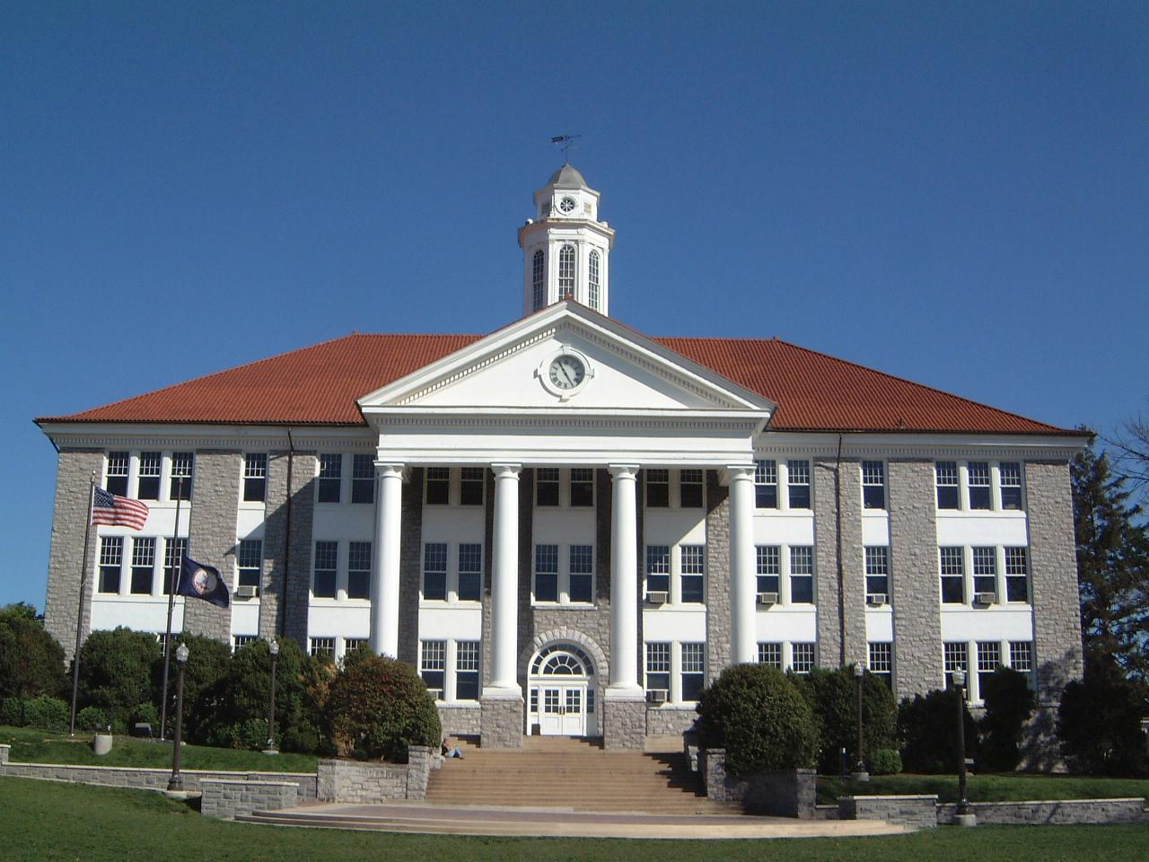 Wilson Hall at James Madison University quad in Harrisonburg, VA, United States. Created by User:Alma mater May 3, 2006 with GFDL lisence allows anyone to use this picture for any purposes.